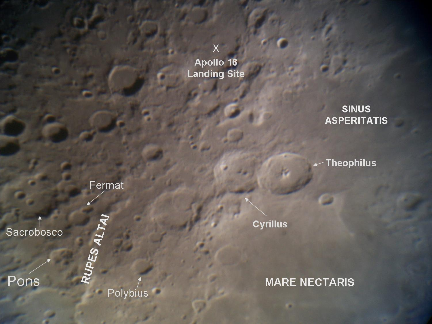 Crater Pons photographed by Eric S. Kounce of the West Texas Astronomers ( on October 28, 2006 utilizing the 36-inch Telescope at McDonald Observatory near Ft. Davis, Texas.